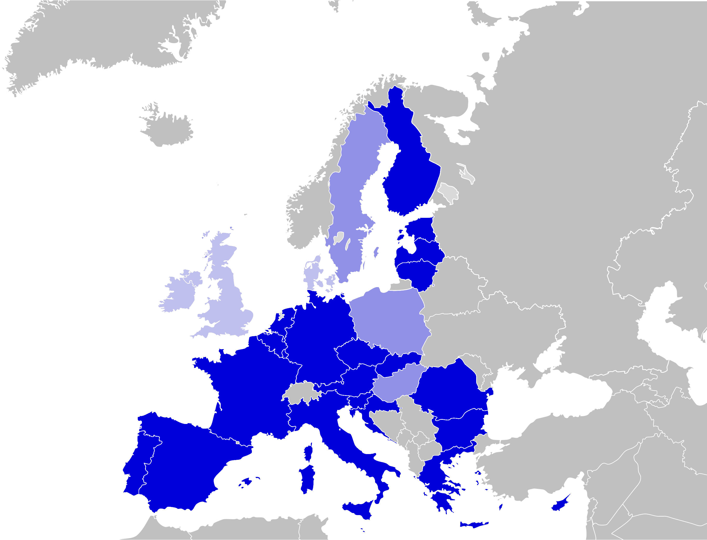 Member states of the European Public Prosecutor within EU